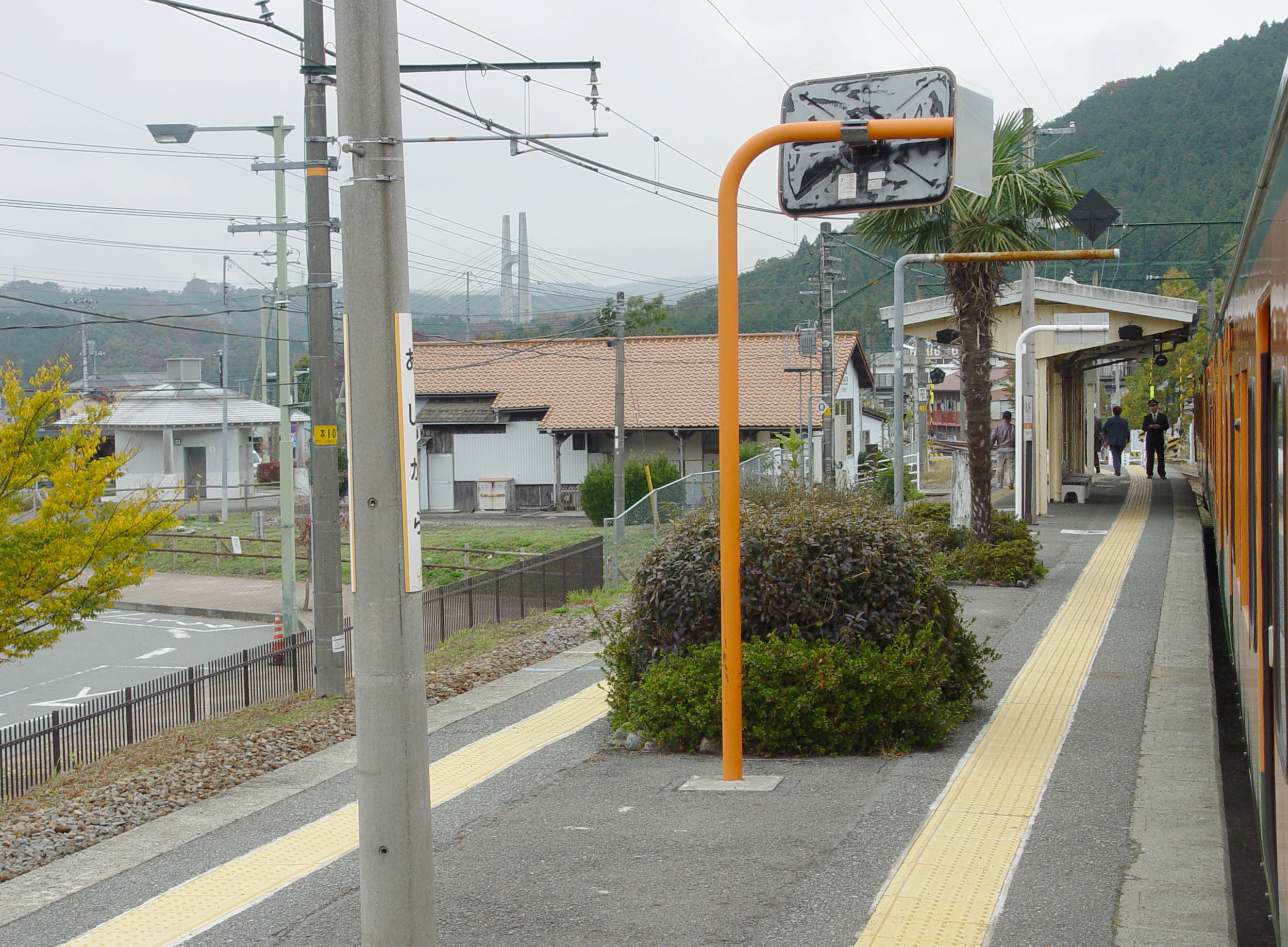 Platform of Ashigara Station, Gotenba Line, Japan